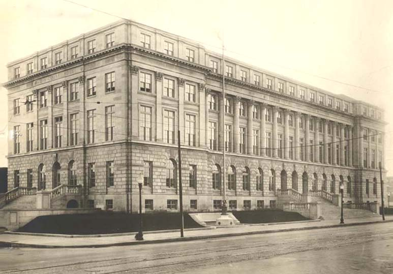 Photograph of the 1929 United States Federal Courthouse in Des Moines, Iowa.